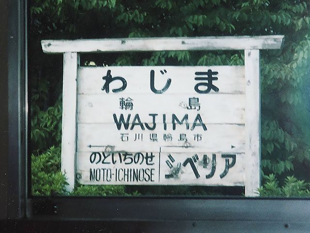 Signboard of Wajima Station on Noto Railway Nanao Line, in Wajima City, Wajima, Japan. Scanned from negative color print.